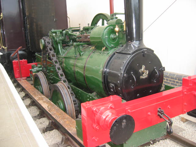 Photograph taken at Quainton Road station in 2006 of original locomotive used by Brill Tramway.